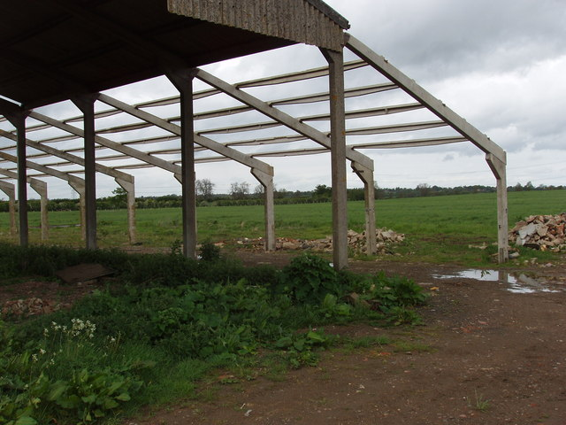 Concrete beam skeleton of barn At the moment this barn is open and the structure of beams can be seen. It is by the Granborough road.